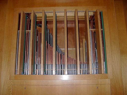 schweller of the "Jemlich" organ im Music Academy, Sofia, Bulgaria